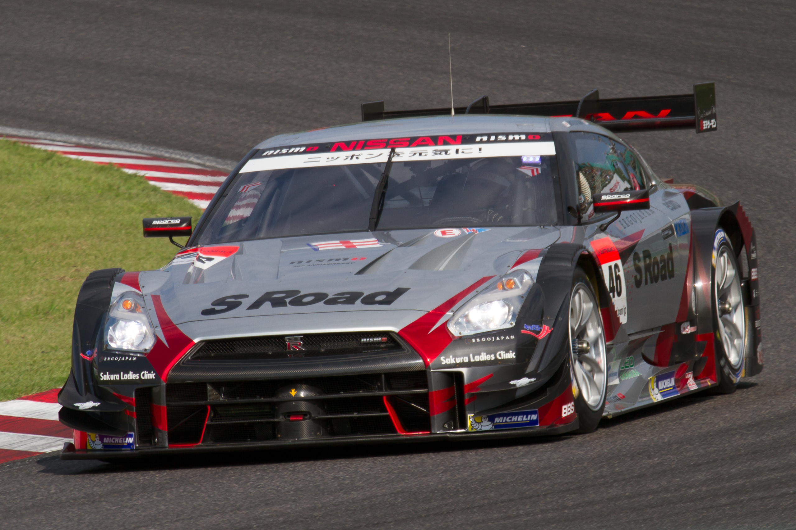 Super GT 2014 Rd.6 Suzuka 1000km: Masataka Yanagida (Mola)